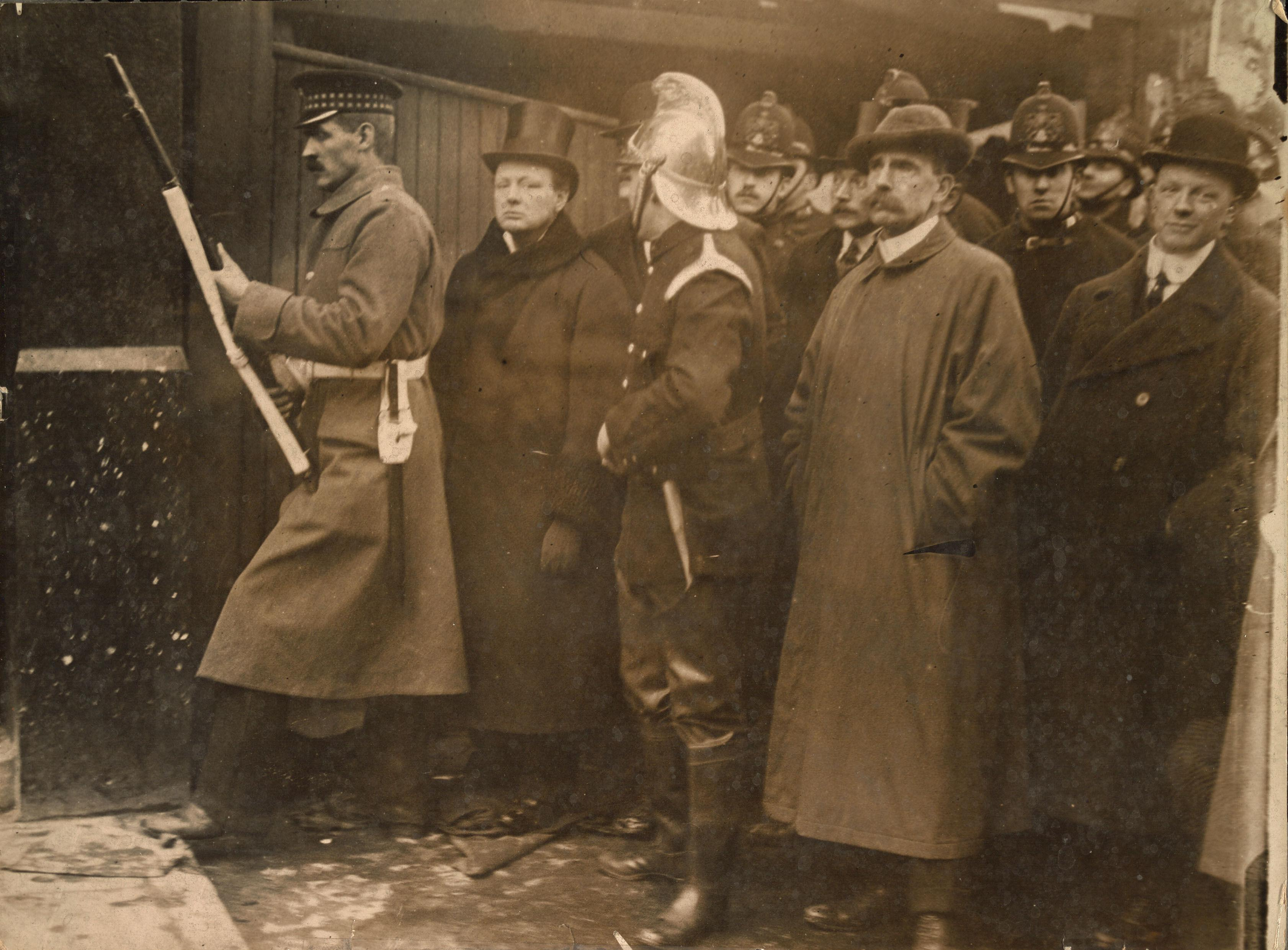 The Siege of Sidney Street of January 1911. The caption in the ILN reads: "The home secretary during the fight: Mr Winston Churchill on the scene of the extraordinary "battle" in Sidney Street, off the Mile End Road"